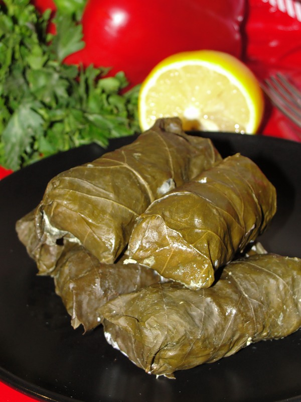 The Armenian national dish of the Dolma